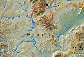 GIS map created by author showing the wind gap between the Haliacmon and Pinios watersheds.